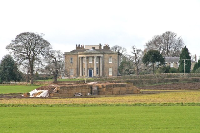 Gateforth Hall Hotel. Regency house with a semicircular bow in is the main entrance. The bow is surrounded by giant unfluted Ionic columns. Probably built in 1816. This building was formally used as Leeds Sanatorium.